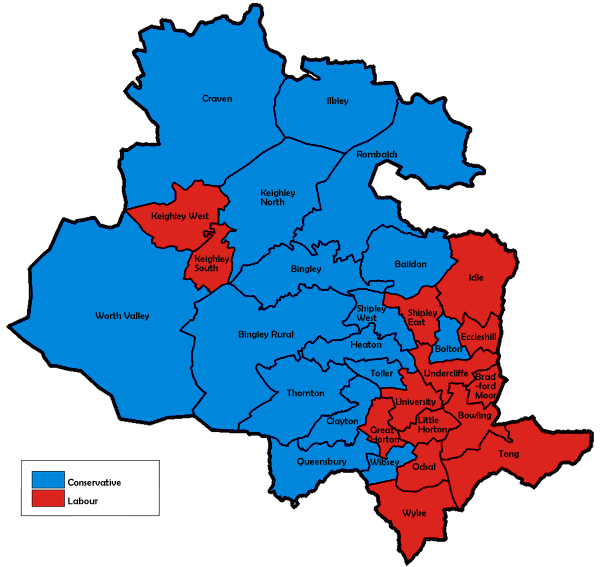 Ward map of Bradford Council with political colouring for the 1983 election.